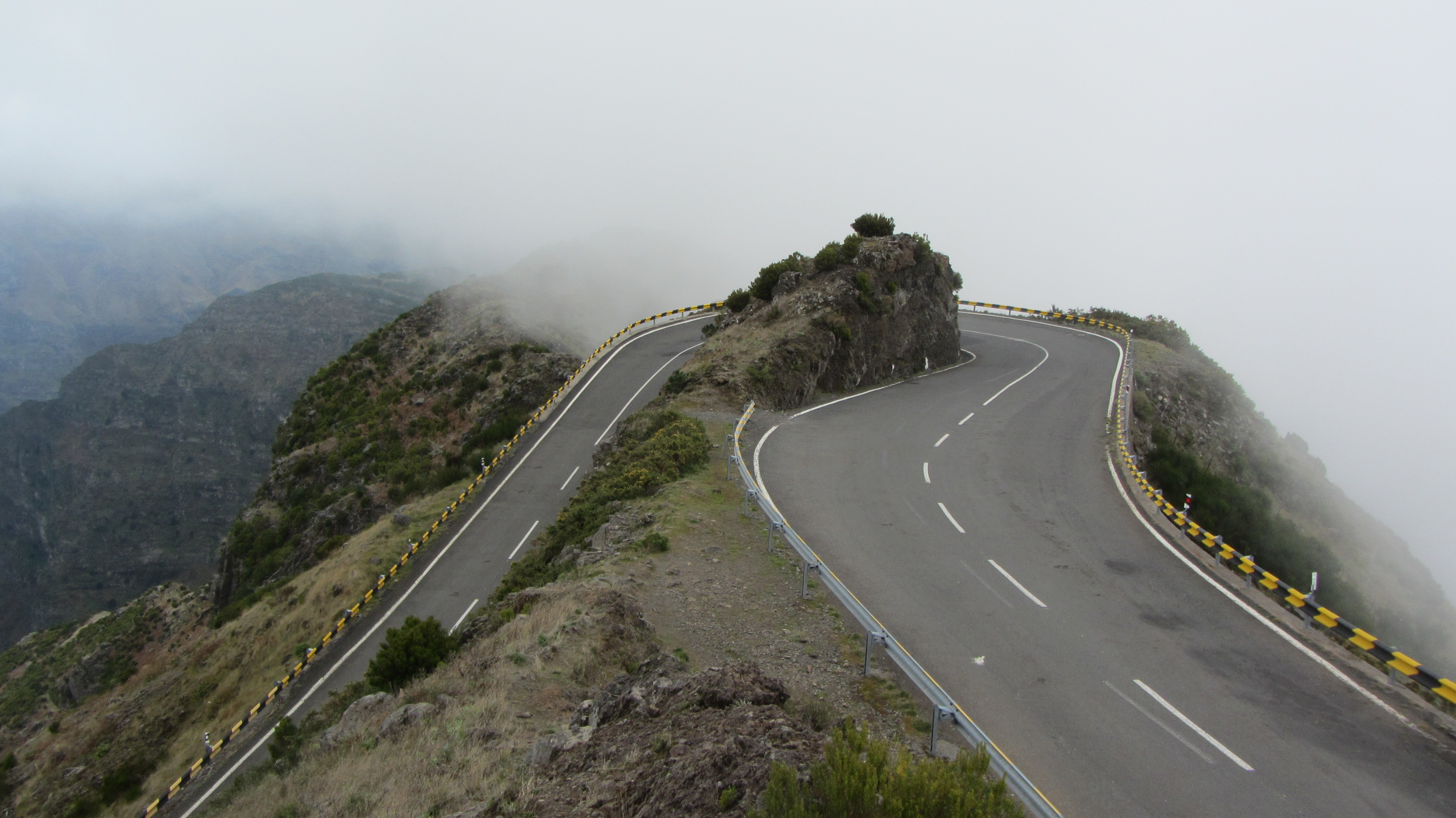 Stunning mountain road with tight turns